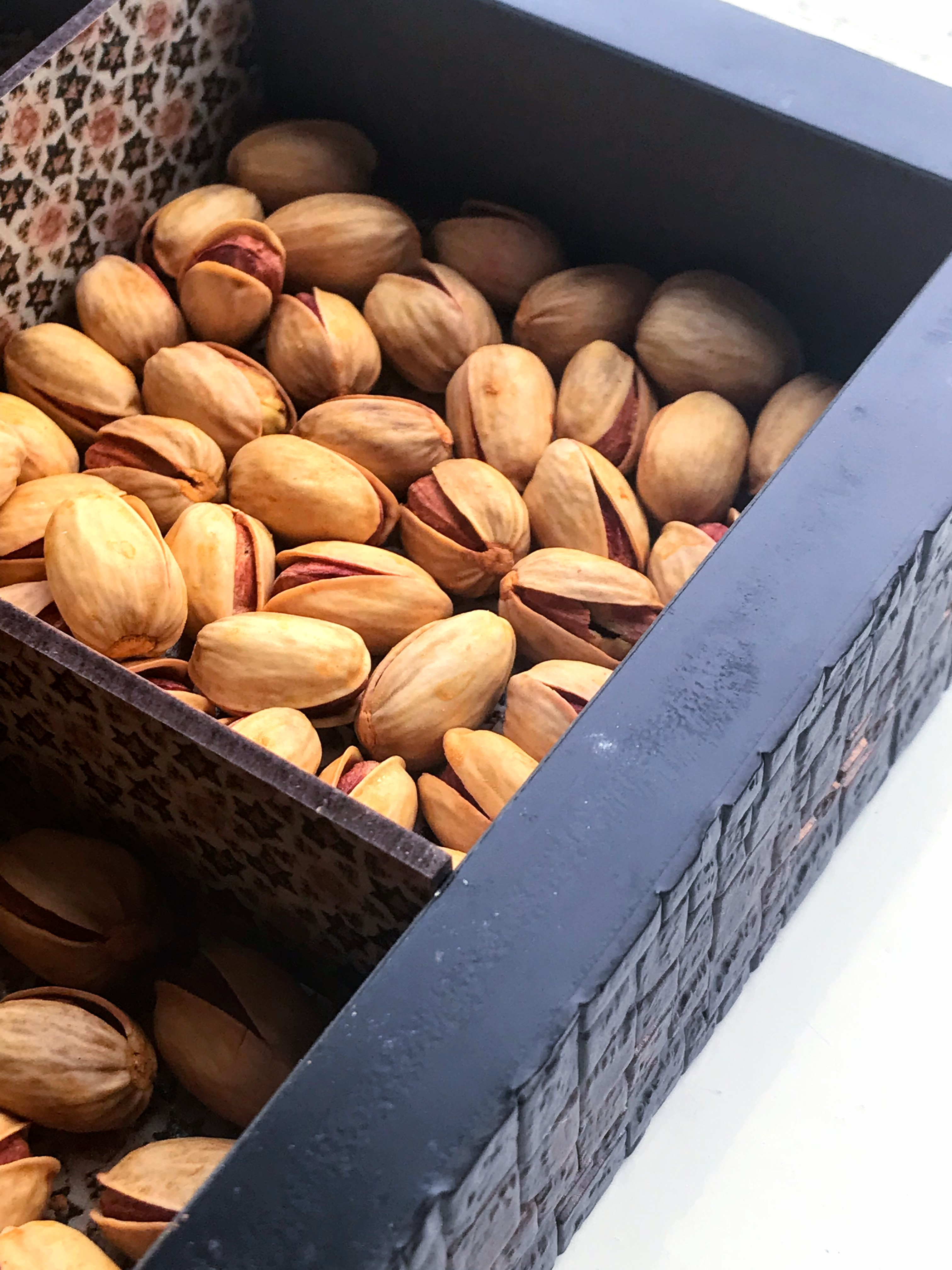 Pistachio nuts from Iran